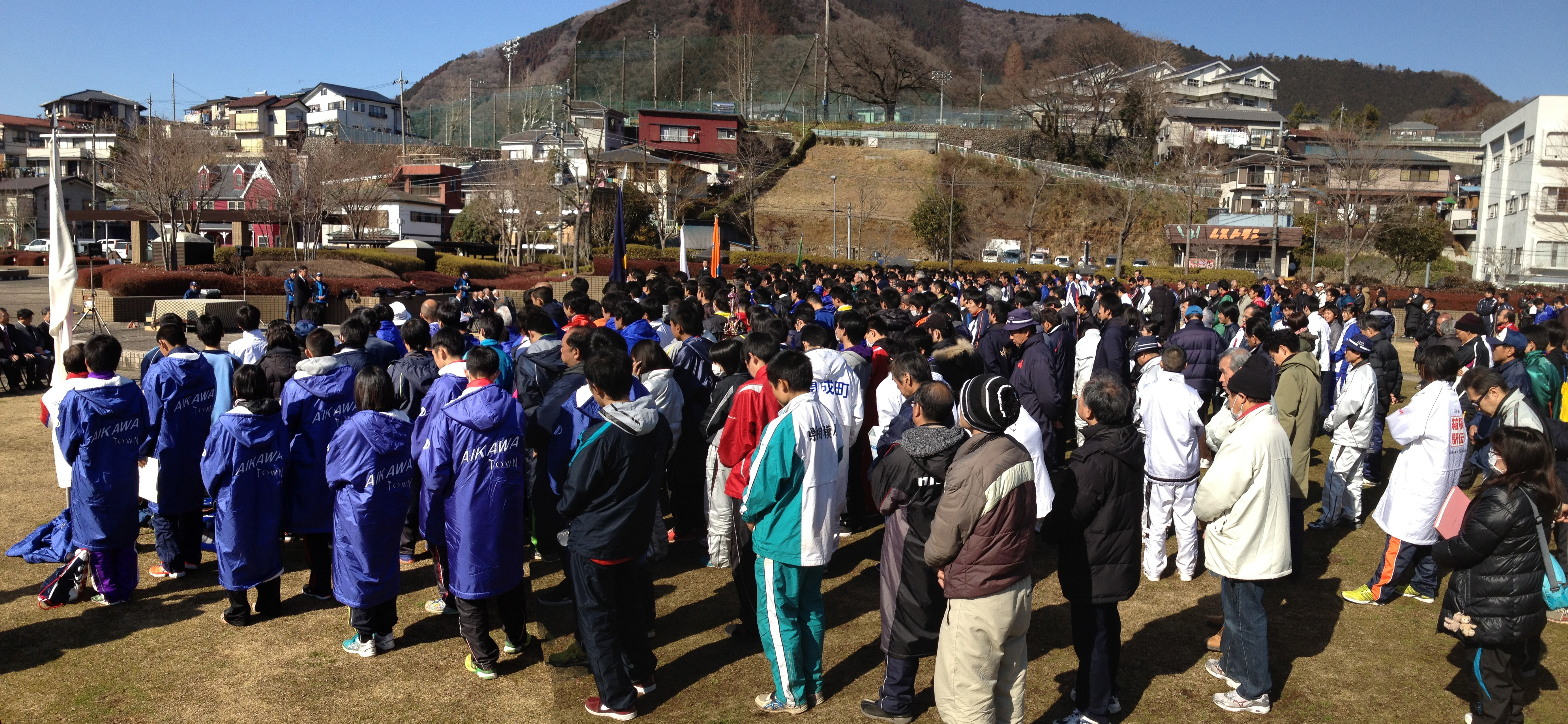 The relay teams gather at the finish for an hour of ceremony and speeches, demonstrating a Japanese characteristic of compliant cooperation.